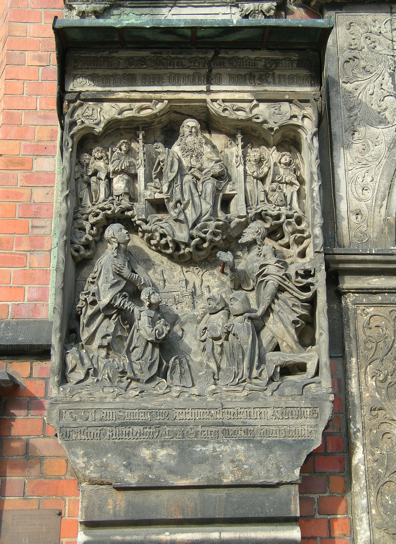 Gothic epitaph of Christoph Rindfleisch, 1505. Church of St. Elisabeth in Wrocław.